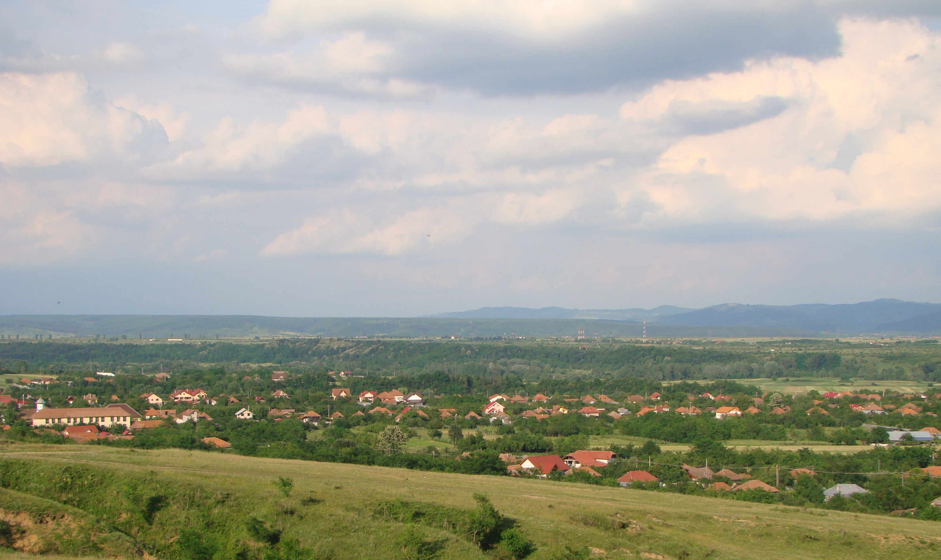 Bobu, Gorj county, Romania